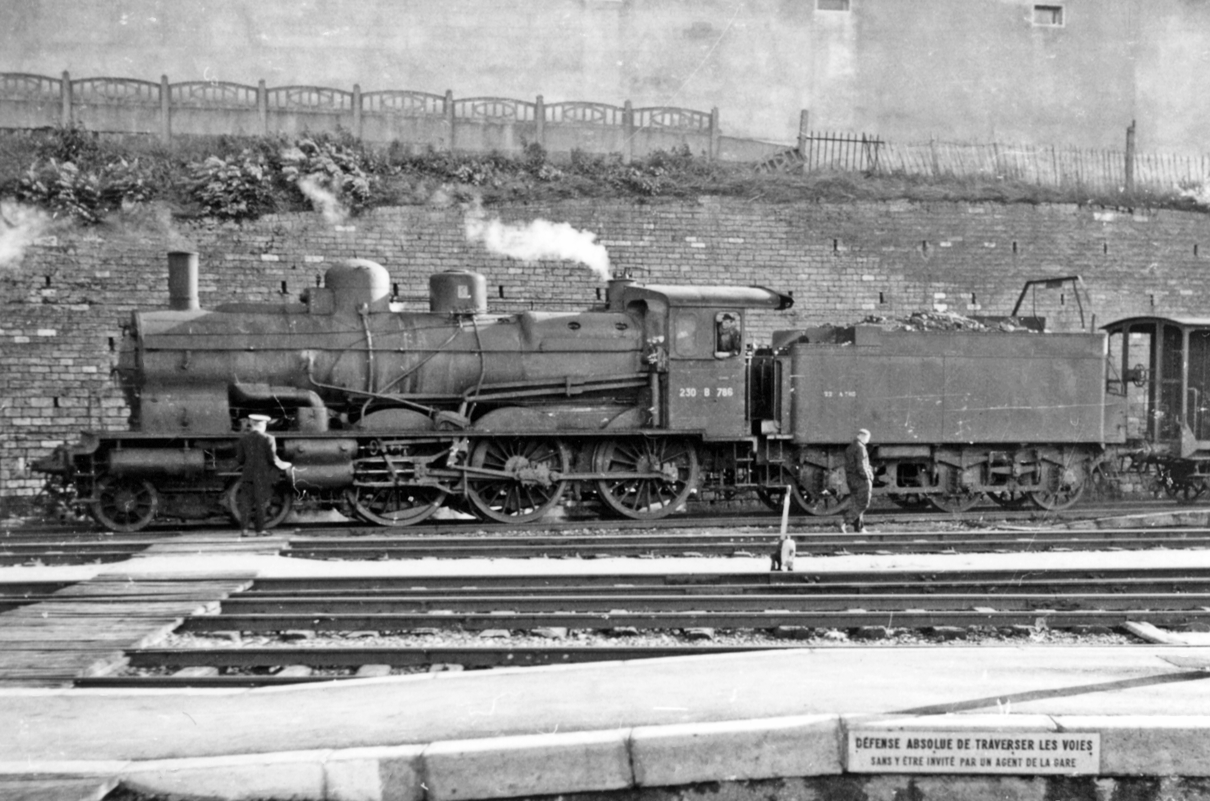 SNCF class 230-B 4-6-0, number 230-B-786 at Chaumont (Marne), 1958.